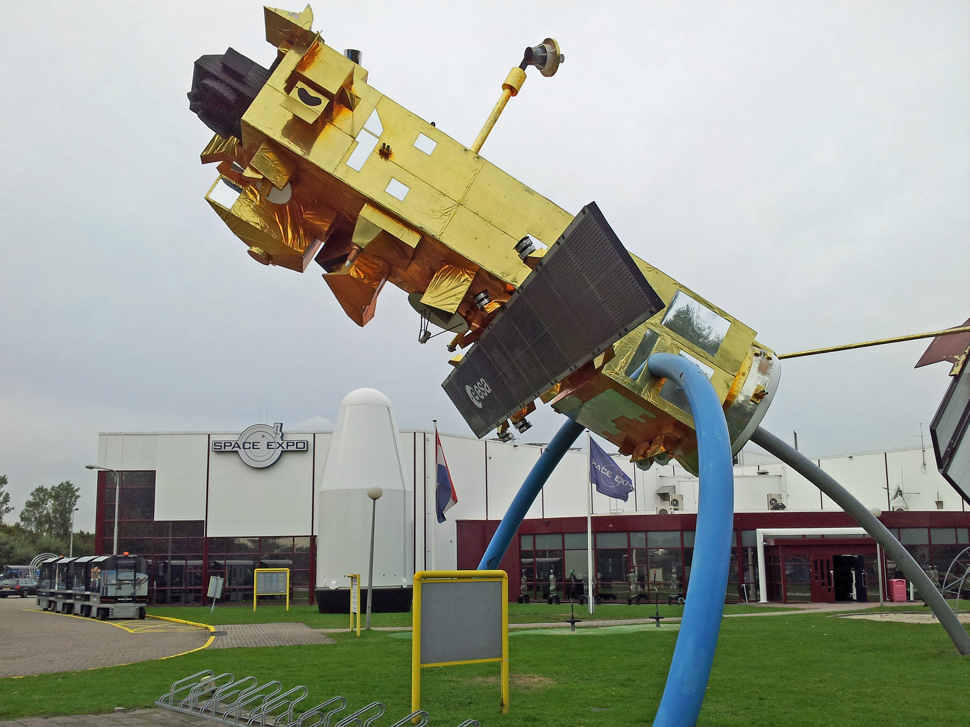 Space Expo in Noordwijk, Netherlands, with full-scale Model of Envisat Satellite and various rockets.